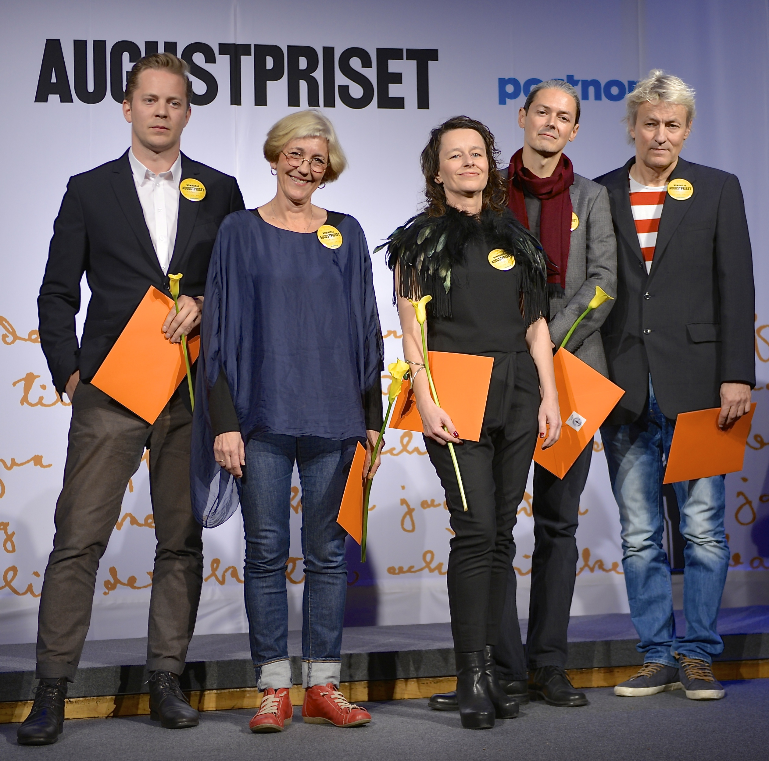 Nominated for the August Prize in the category of non-fiction in 2014. From left: Anders Rydell, Tina Thunander, Anna Charlotta Gunnarsson, Håkan Håkansson and Lars Lerin.